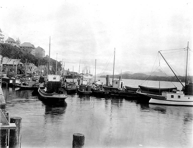 From John Cobb field notebook: The city float, Ketchikan. June 29, 1911 Subjects (LCTGM): Piers & wharves--Alaska--Ketchikan; Fishing boats--Alaska--Ketchikan; Waterfronts--Alaska--Ketchikan Subjects (LCSH): Ketchikan (Alaska)